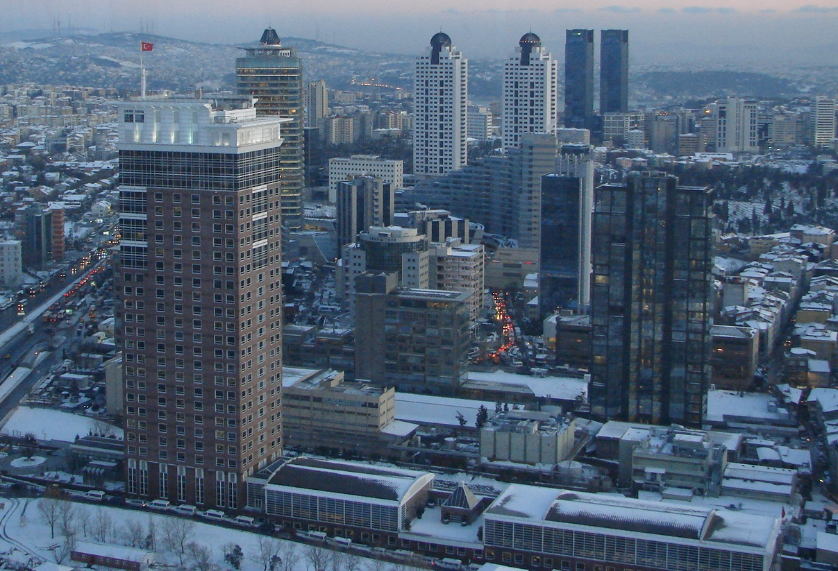 Skyline of Levent district in Istanbul